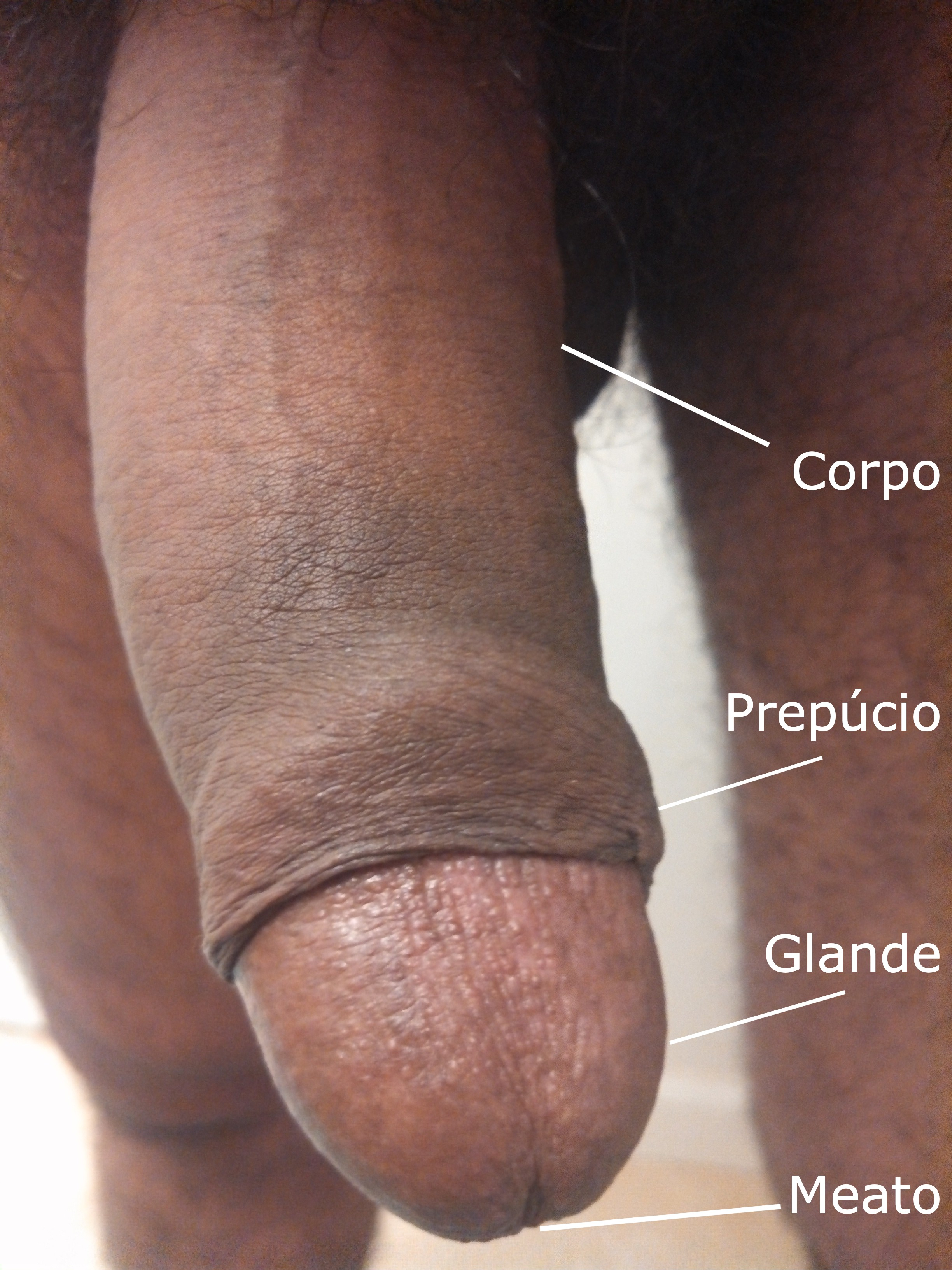 Image of foreskin close-up with Portuguese descriptions